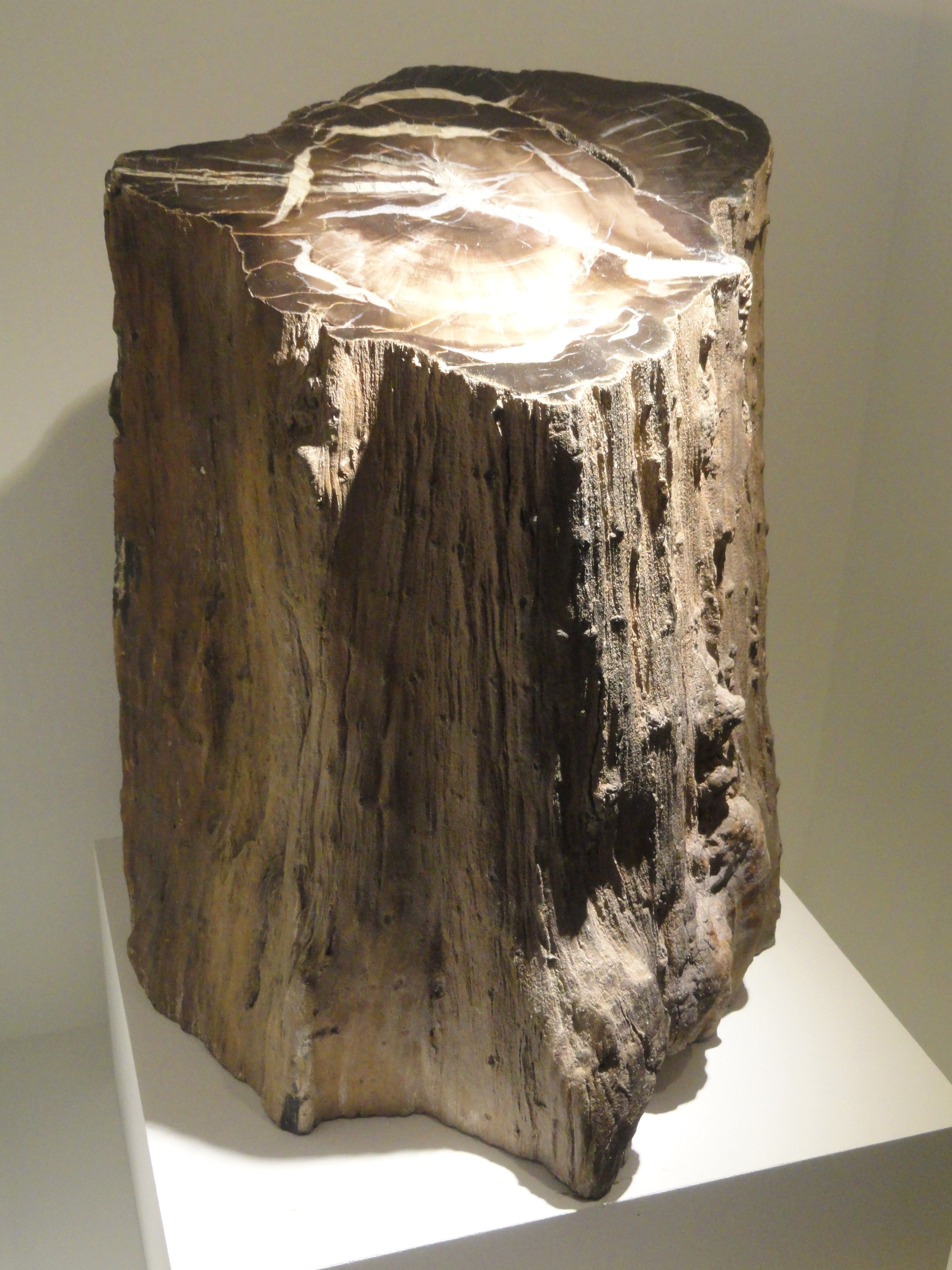 Exhibit in the Houston Museum of Natural Science, Houston, Texas, USA.